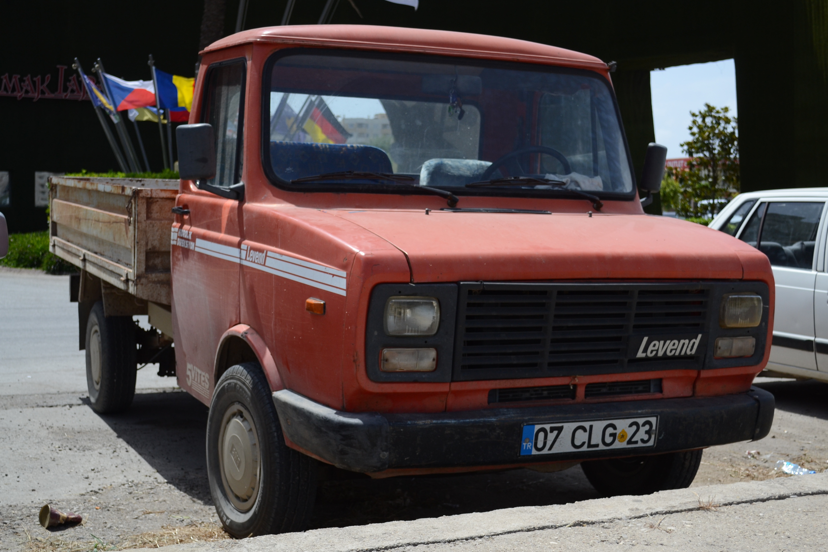 BMC Levend truck